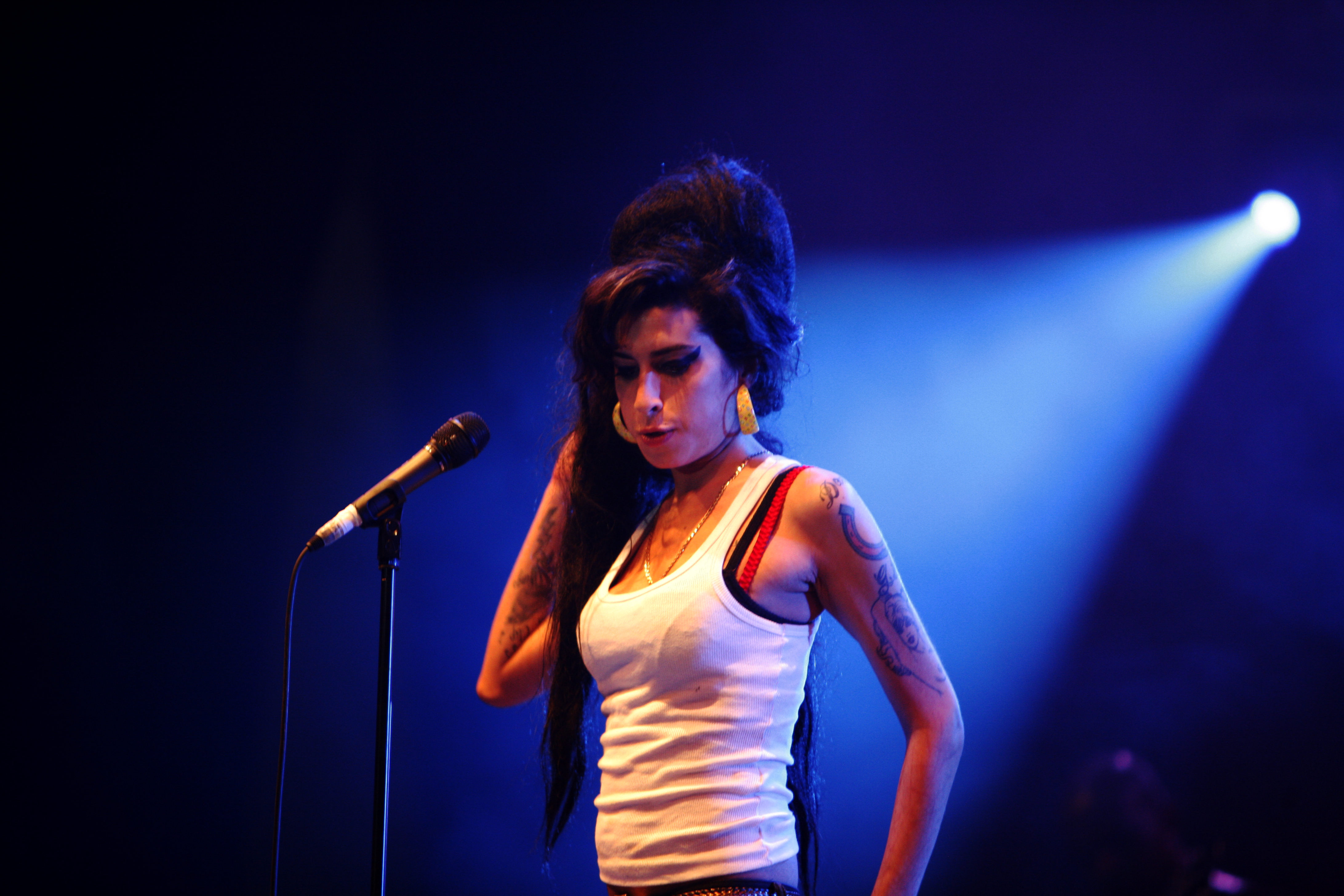 Amy Winehouse at the Eurockéennes of 2007